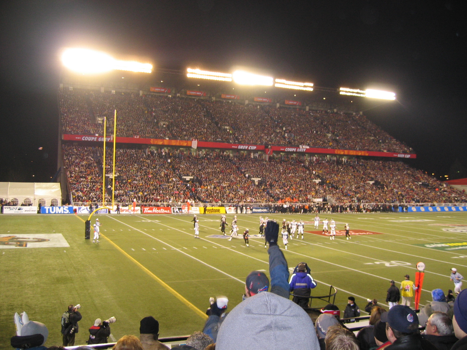 grey cup 075